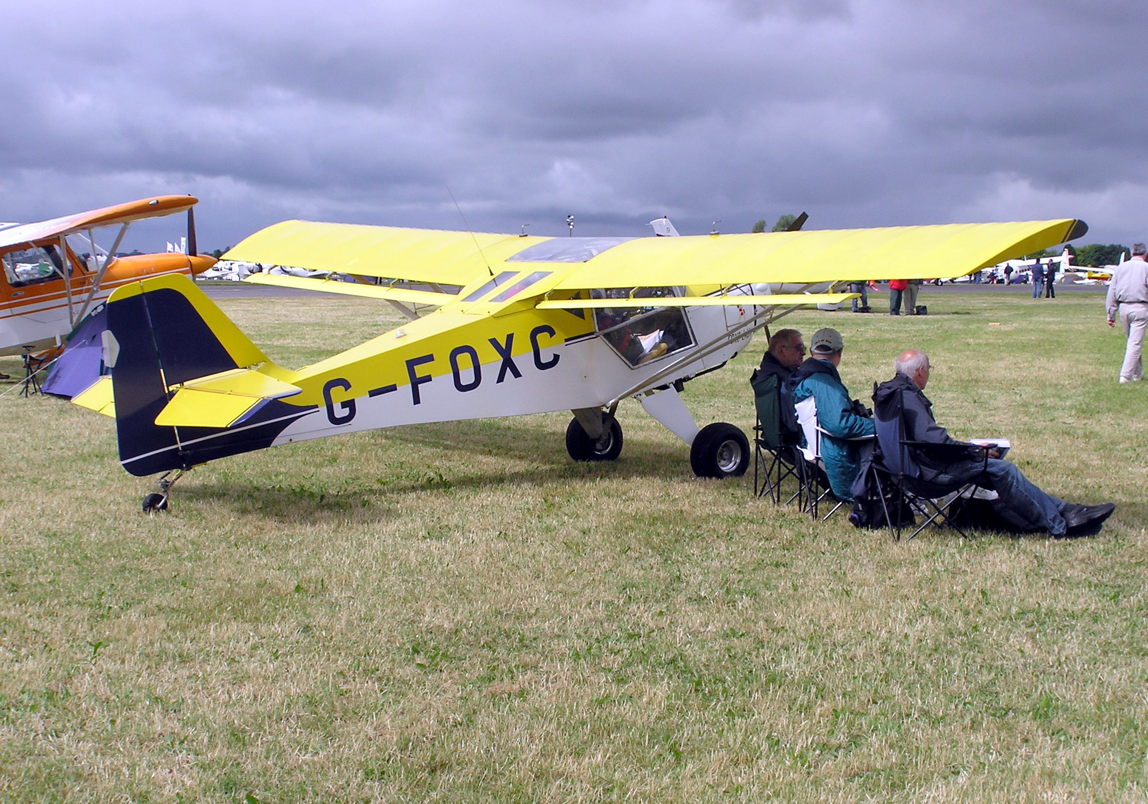 Denney Kitfox Model 3 (G-FOXC) at Kemble Airfield, Gloucestershire, England. Built 1991.